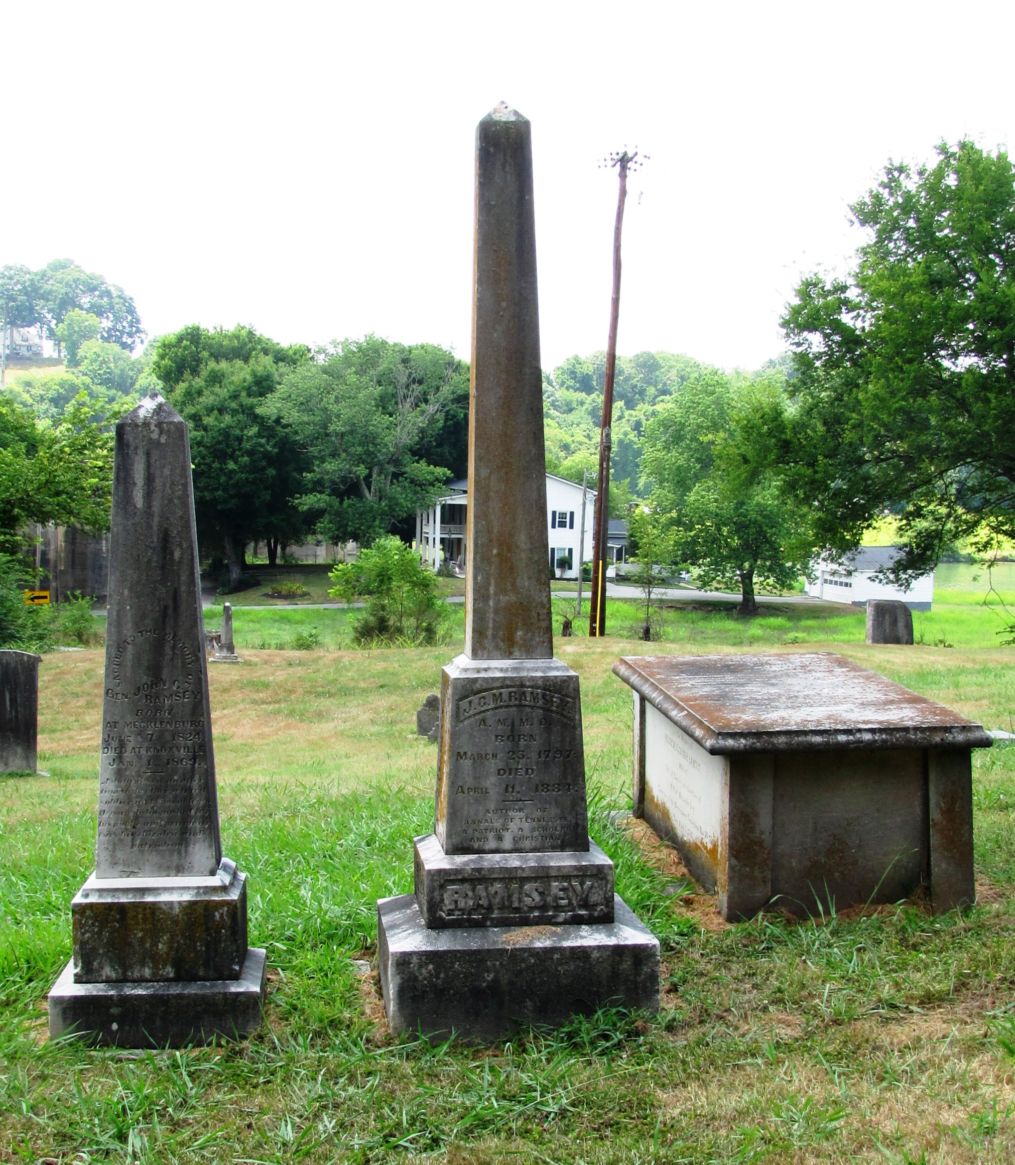 The graves of the Ramsey family at Lebanon-in-the-Fork Cemetery in Knoxville, Tennessee, USA. The vault tomb on the right is that of Francis Alexander Ramsey (1764–1820) and his wife, Peggy. The tall obelisk at the center marks the graves of historian J.G.M. Ramsey (1797–1884) and his wife, Margaret Crozier. The short obelisk at the left marks the grave of John Crozier Ramsey (1824–1869), son of J.G.M. Ramsey, and Confederate district attorney of Knoxville during the Civil War.